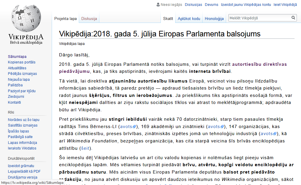 Latvian Wikipedia blackout on July 4, 2018